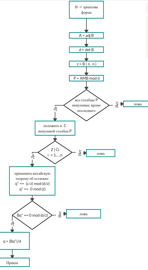 Algorithm Ideal lattice